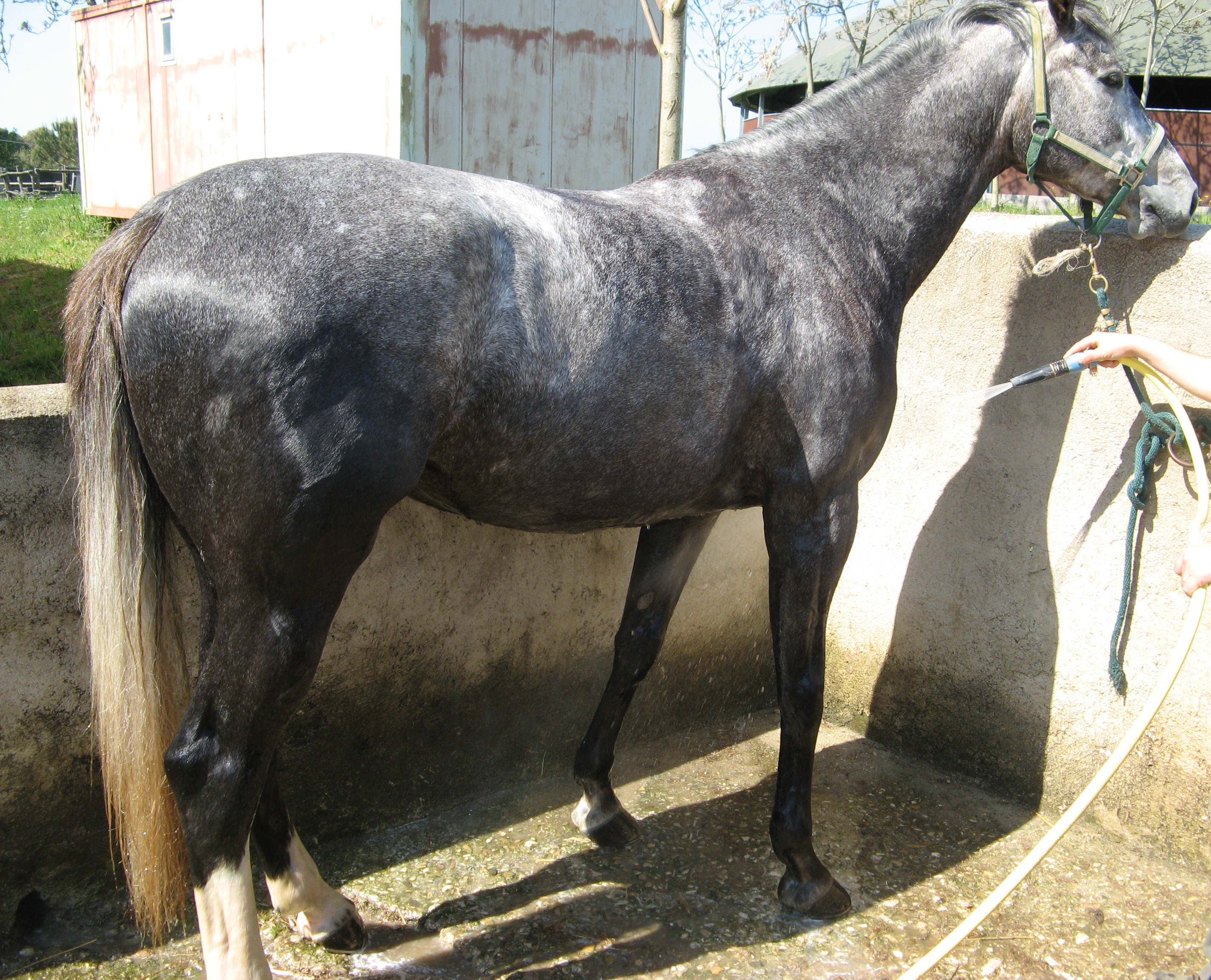 Picture of a Sardinian Anglo-Arab horse